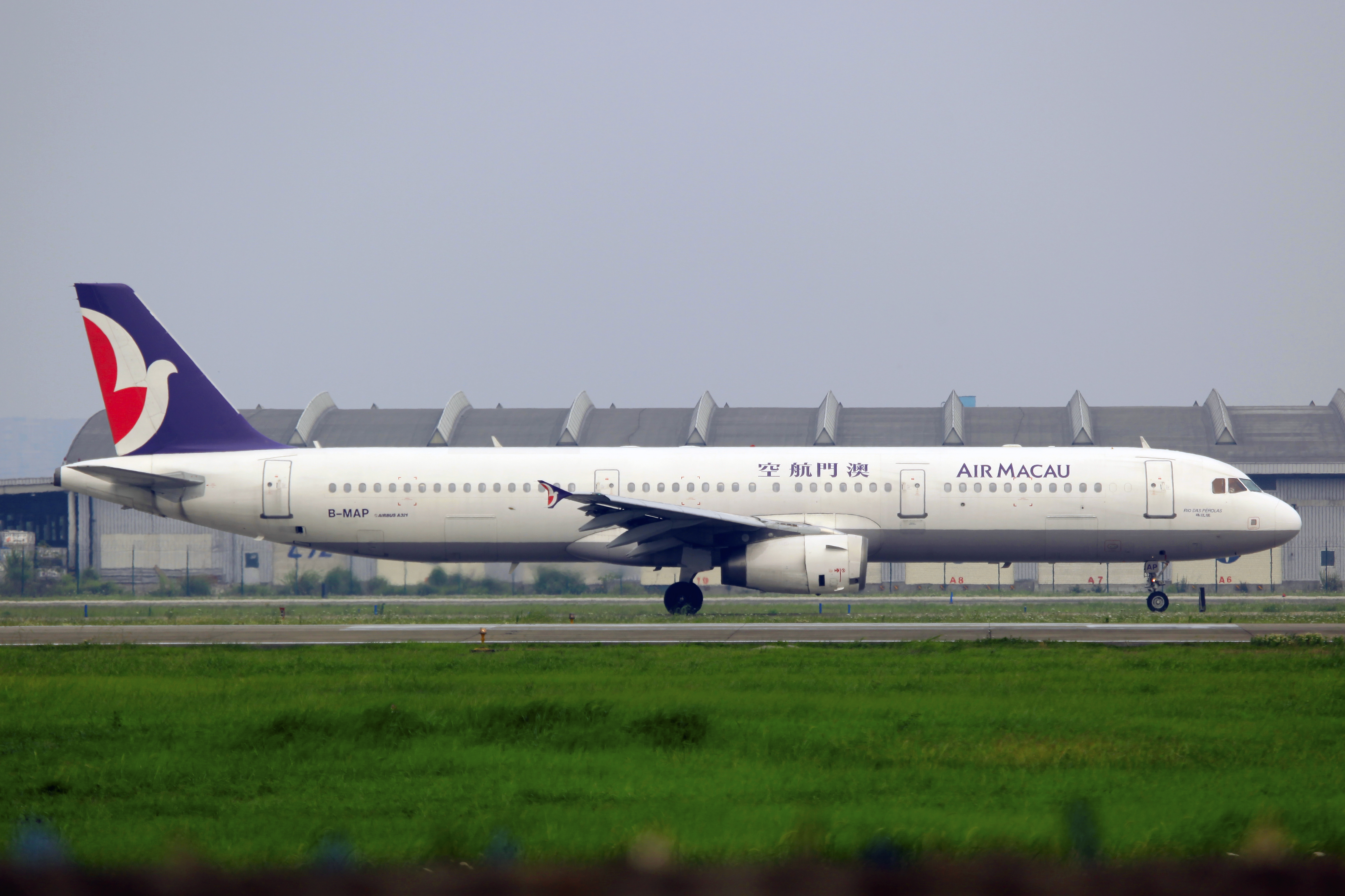 B-MAP | Air Macau | Airbus A321-231 | Chengdu Shuangliu International Airport [CTU]